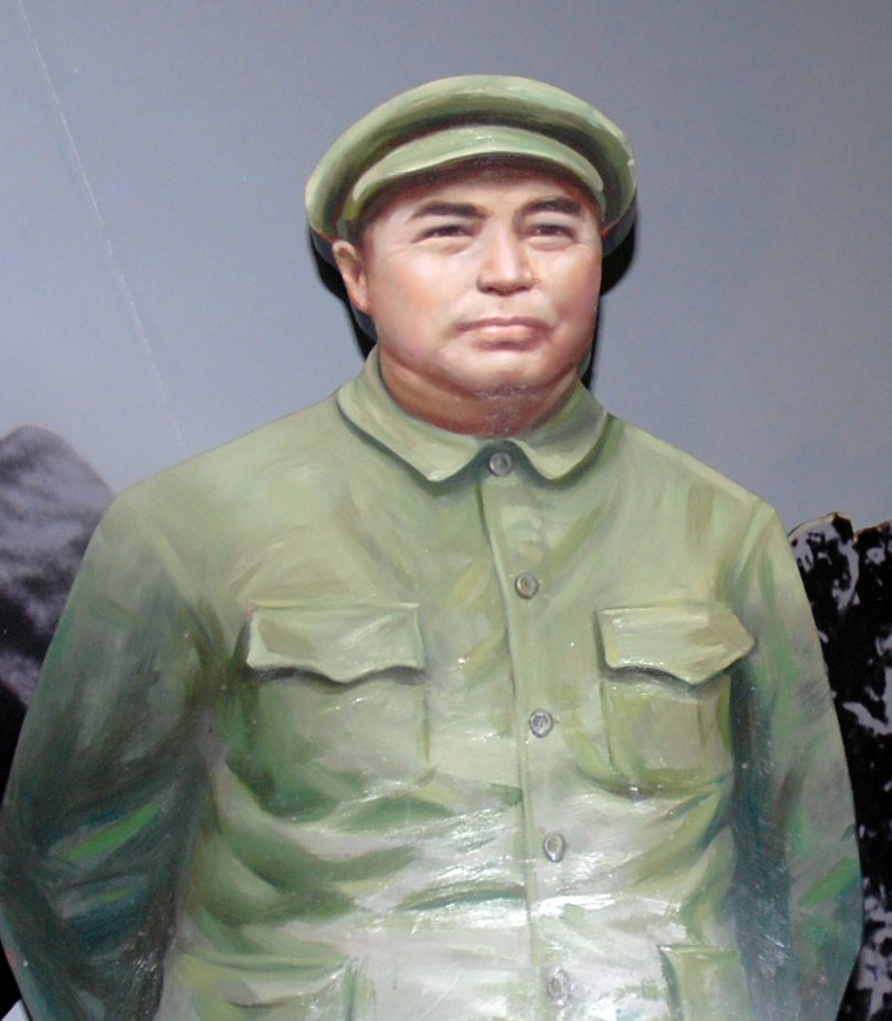 Peng Dehuai at Geoje POW Camp